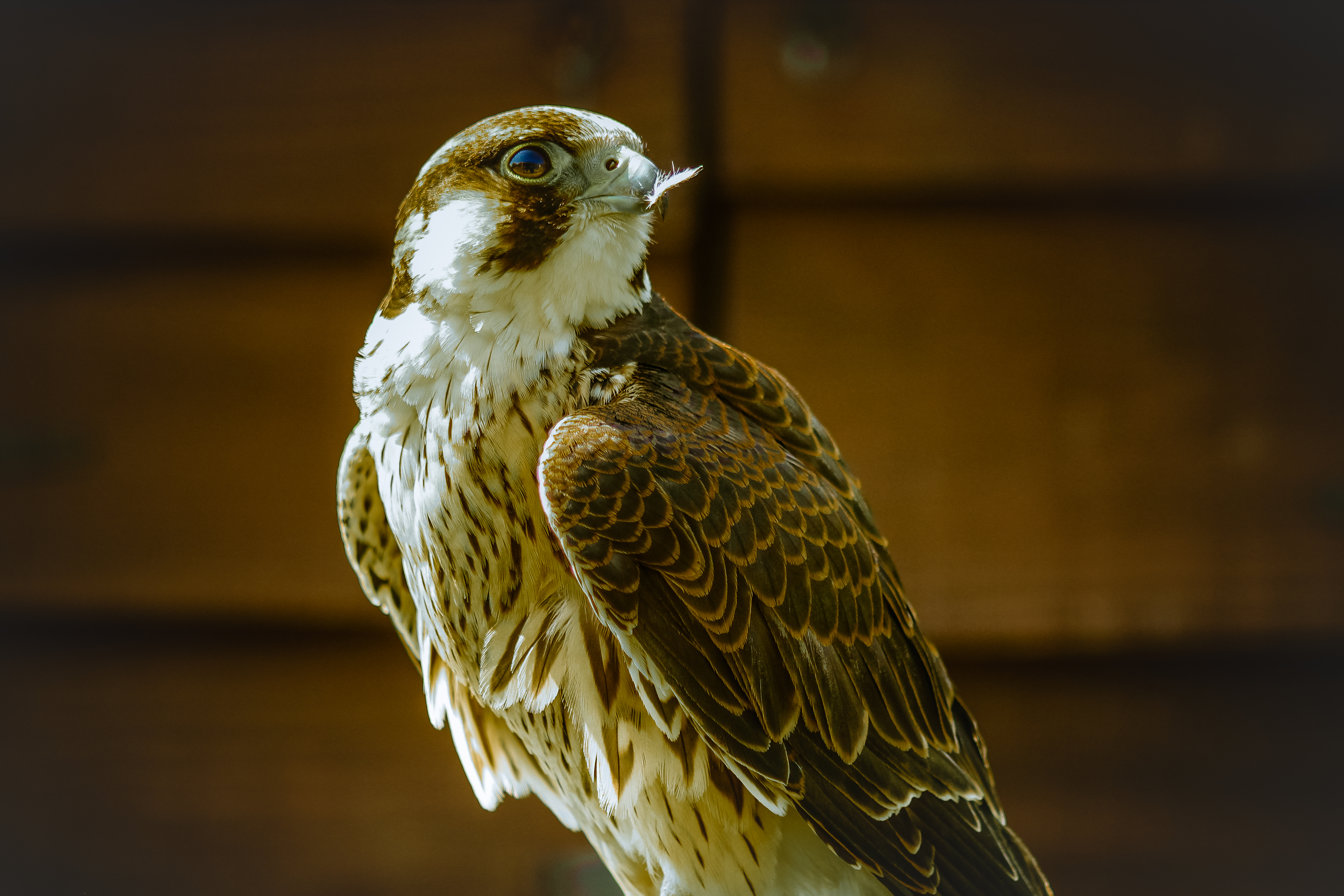 Barbary Falcon